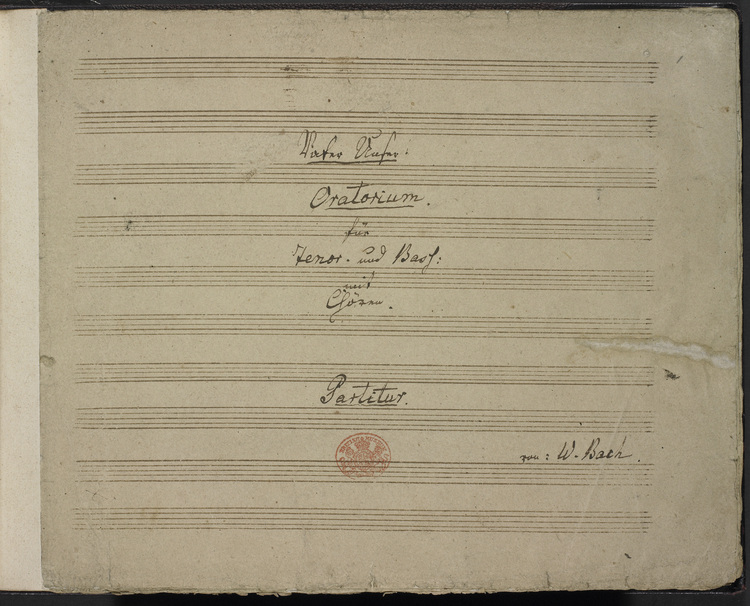 A handwritten page from the manuscript score of Vater unser, written in the author's own hand. Held and digitised by the British Library.